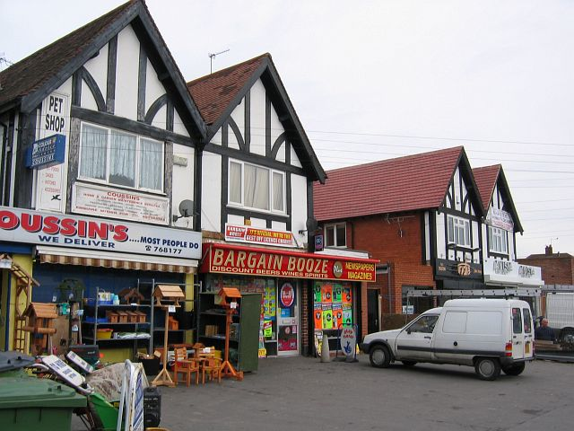 Shops at Sunny Hill Shops near the junction with Stenson Road, in this southern surburb of Derby.